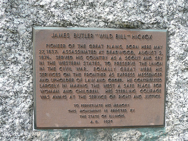 Photo of the plaque at the Wild Bill Hickok Memorial in Troy Grove Illinois.